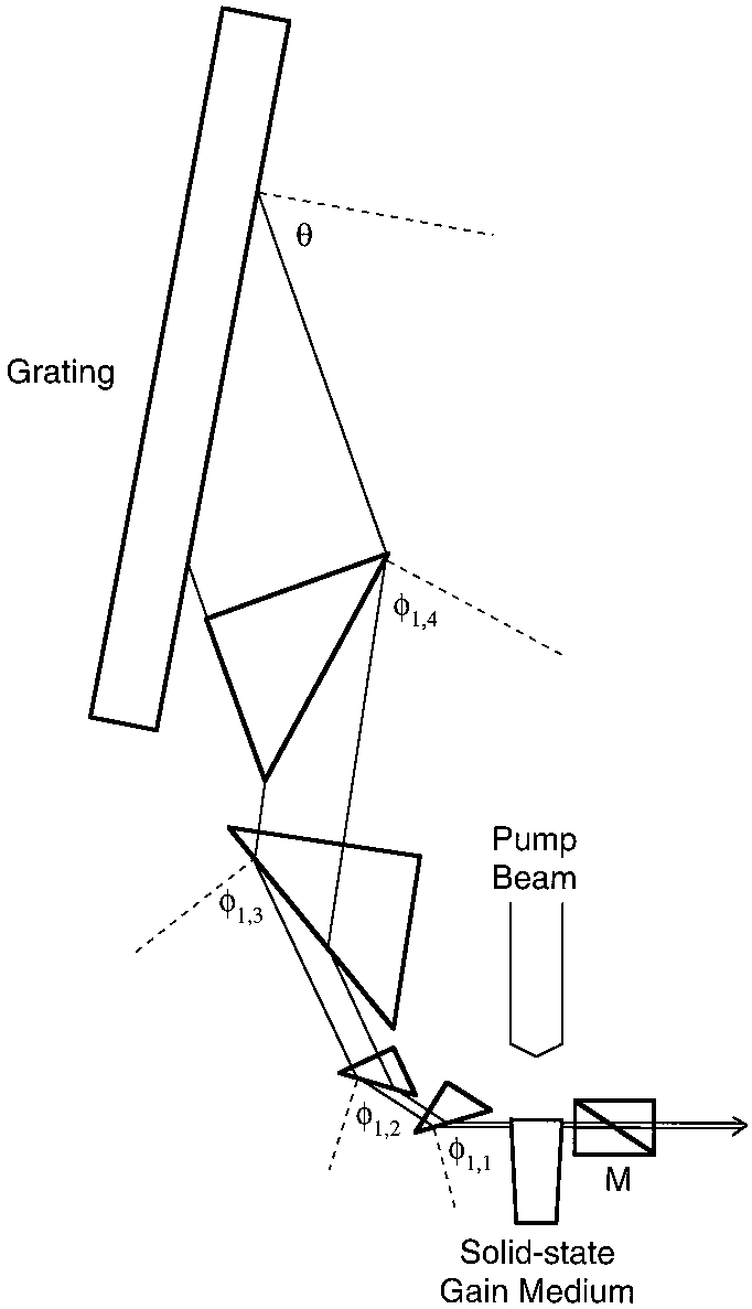 Schematic of the solid-state multiple-prism Littrow grating dye-laser oscillator